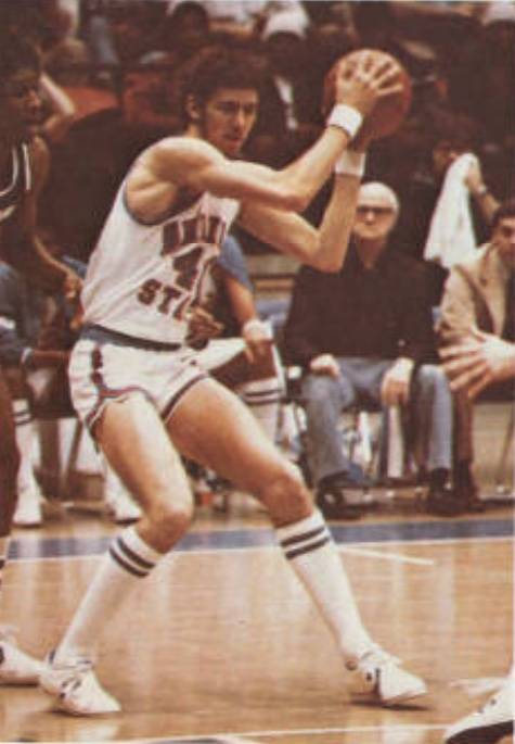 Indiana State University basketball player Brad Miley from the 1977 “Sycamore” student yearbook